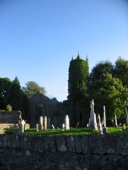 Kilteely-Dromkeen: The old Church of Ireland church at Dromkeen, near the site of the Dromkeen Ambush (1921). Photographed by Éoin Ó hIcídhe 30th September 2005